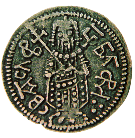 Silver coin of Theodore Svetoslav (1300-1322)